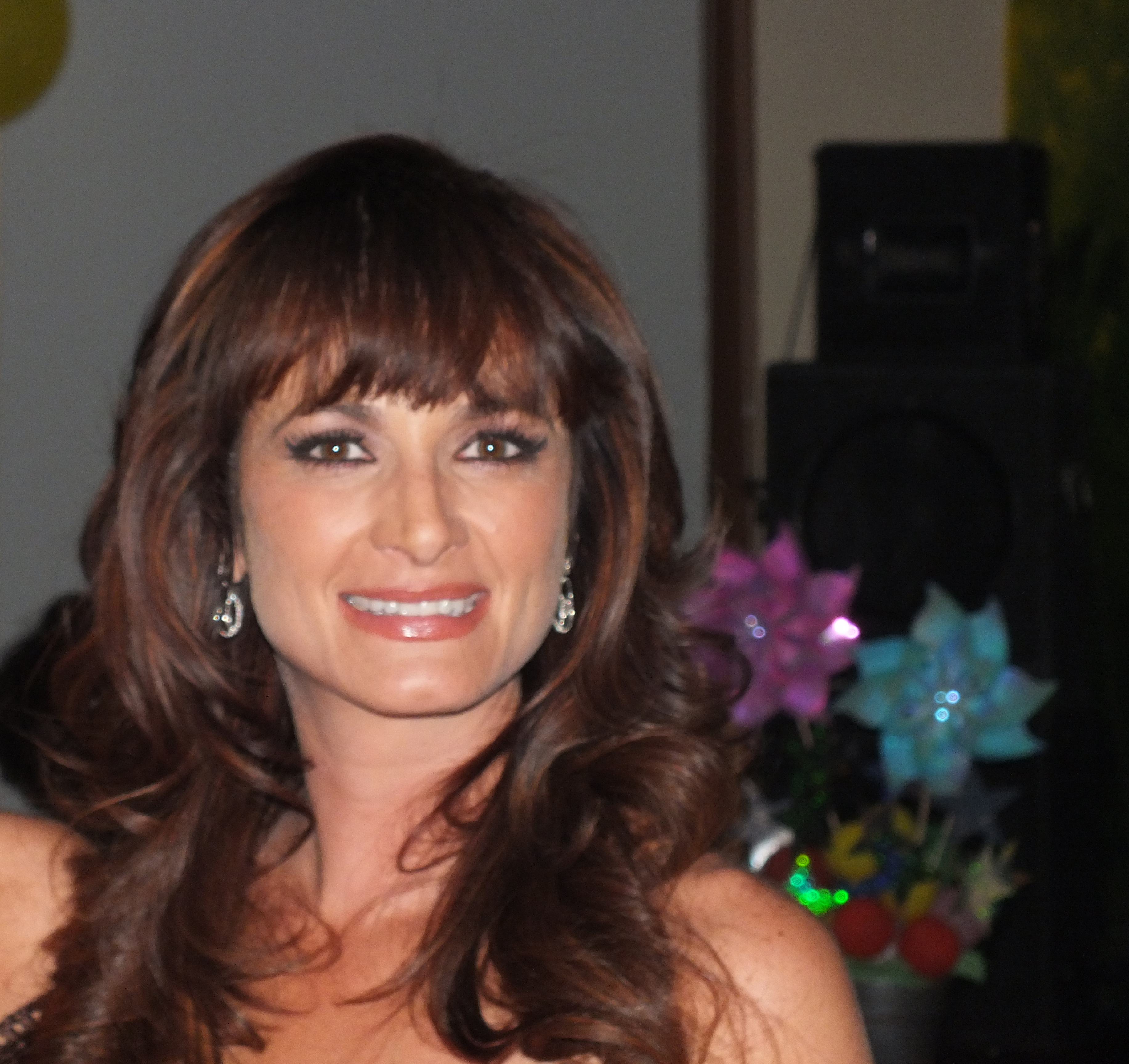 ALEJANDRA PROCUNA